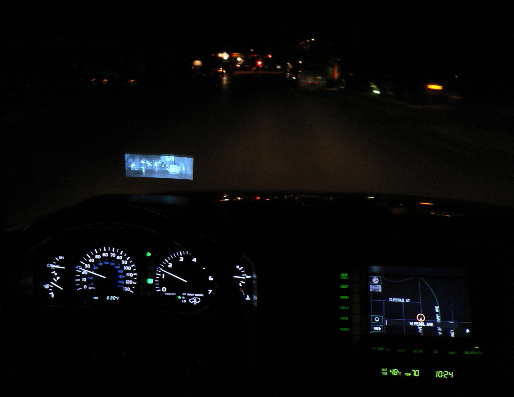 The new Lexus SUV has a nifty option: a night vision camera that projects onto a heads-up-display. This allows you to see animals on the road long before the headlights would illuminate them. (You can compare the views in the full size version of the photo; look at the parked cars, for example.) Well, that’s the theory. I asked two drivers if they use it, and they said “just to show off.” The screen is too small to use it as a primary view for driving, and it’s not wide angle enough to use on a curvy road. But it’s really fun for the backseat drivers! What it needs is a software layer for automated threat recognition. See Rudolph, make it blink red.